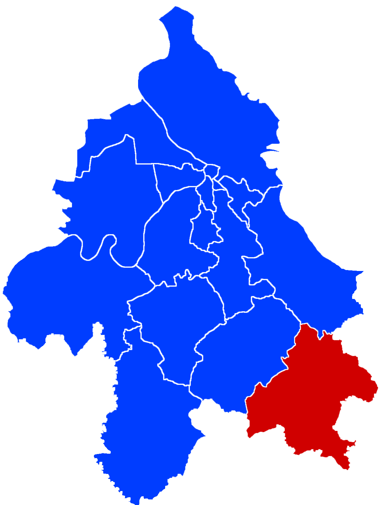 The graphical representation of the municipality of Mladenovac within the city of Belgrade